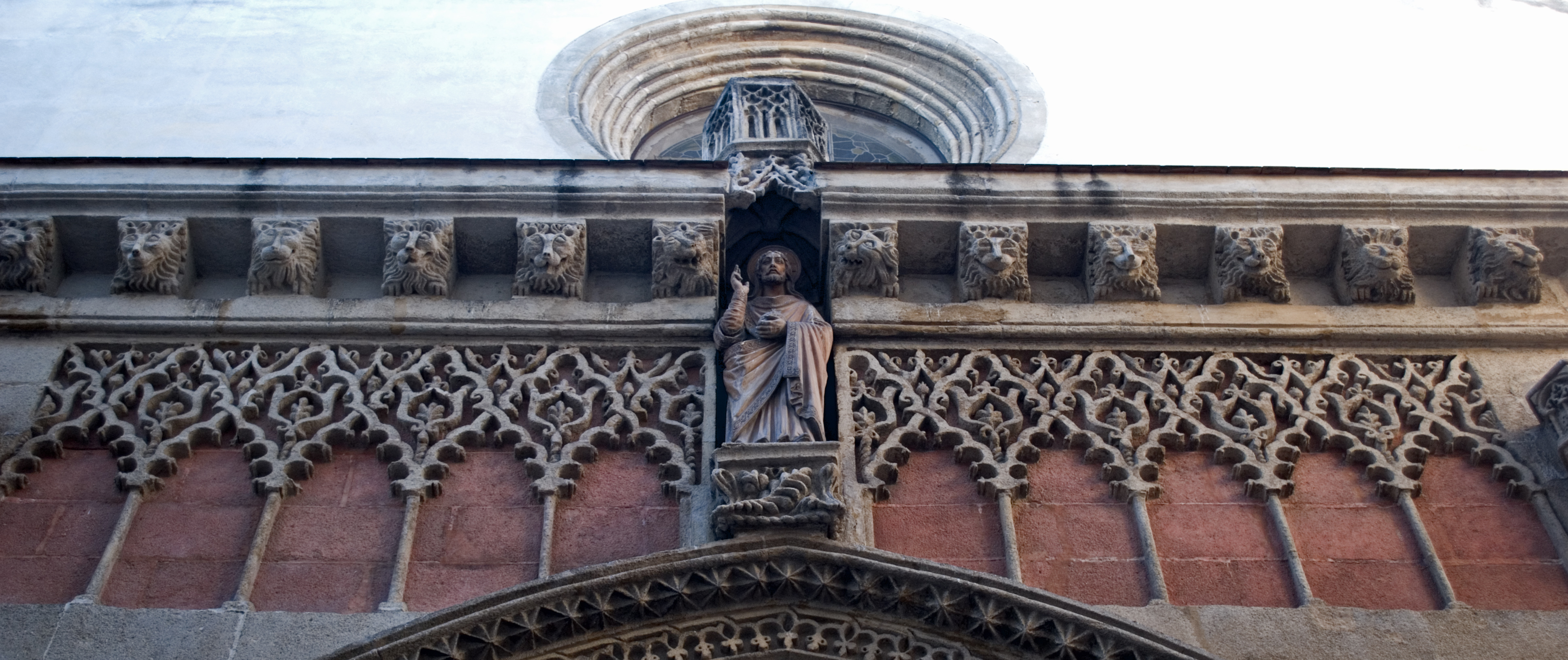 Church of S. Esteban, Seville